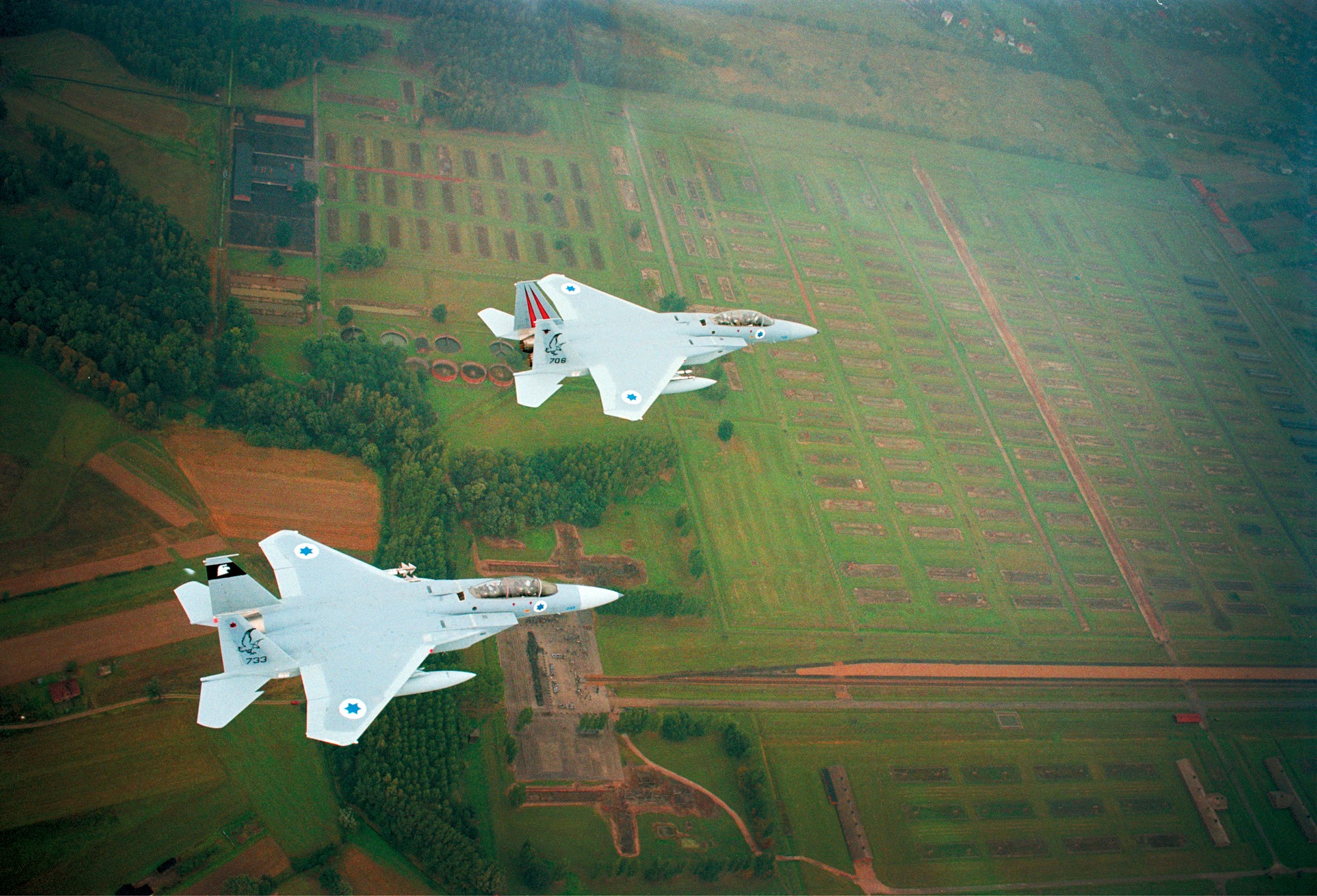 Israeli Air Force jets Fly-over Auschwitz concentration camp